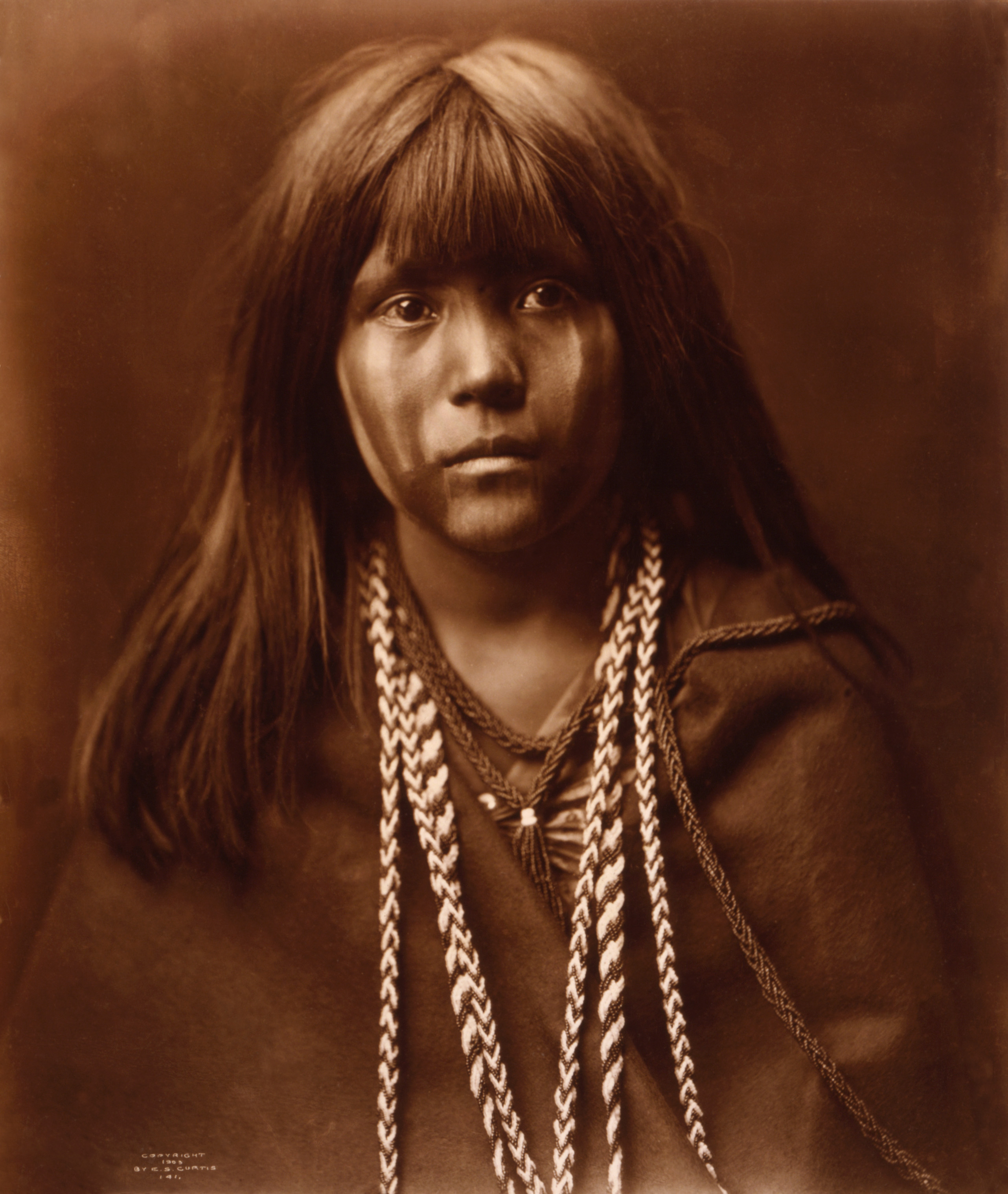 Original title: "Mosa – Mohave". Head-and-shoulders portrait of a Mohave (Mojave) girl, facing front. Published in: The North American Indian / Edward S. Curtis. [Seattle, Wash.] : Edward S. Curtis, 1907-30, Suppl. v. 2, pl. 61.